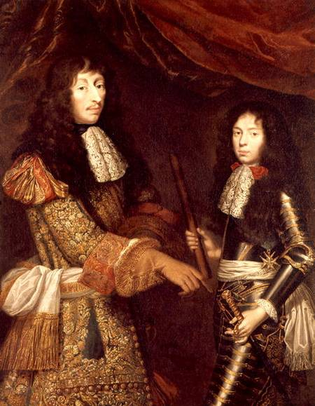 Louis de Bourbon, Prince of Condé, with his son